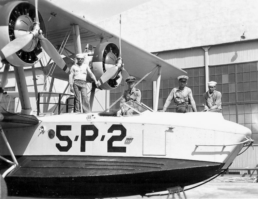 A U.S. Navy Martin PM-2 belonging to Patrol Squadron VP-5S at Naval Station Coco Solo, Panama Canal Zone, showing pilot and crew on the aircraft. The caption on back of the photograph states that it is Chick Carroll and his crew.